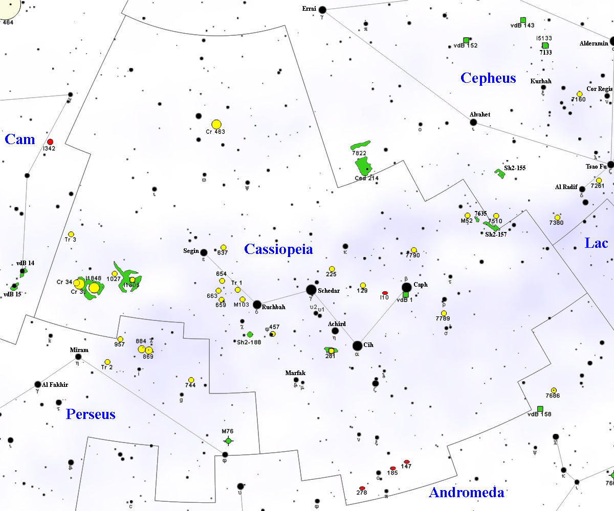 Cassiopeia constellation map, with DSOs